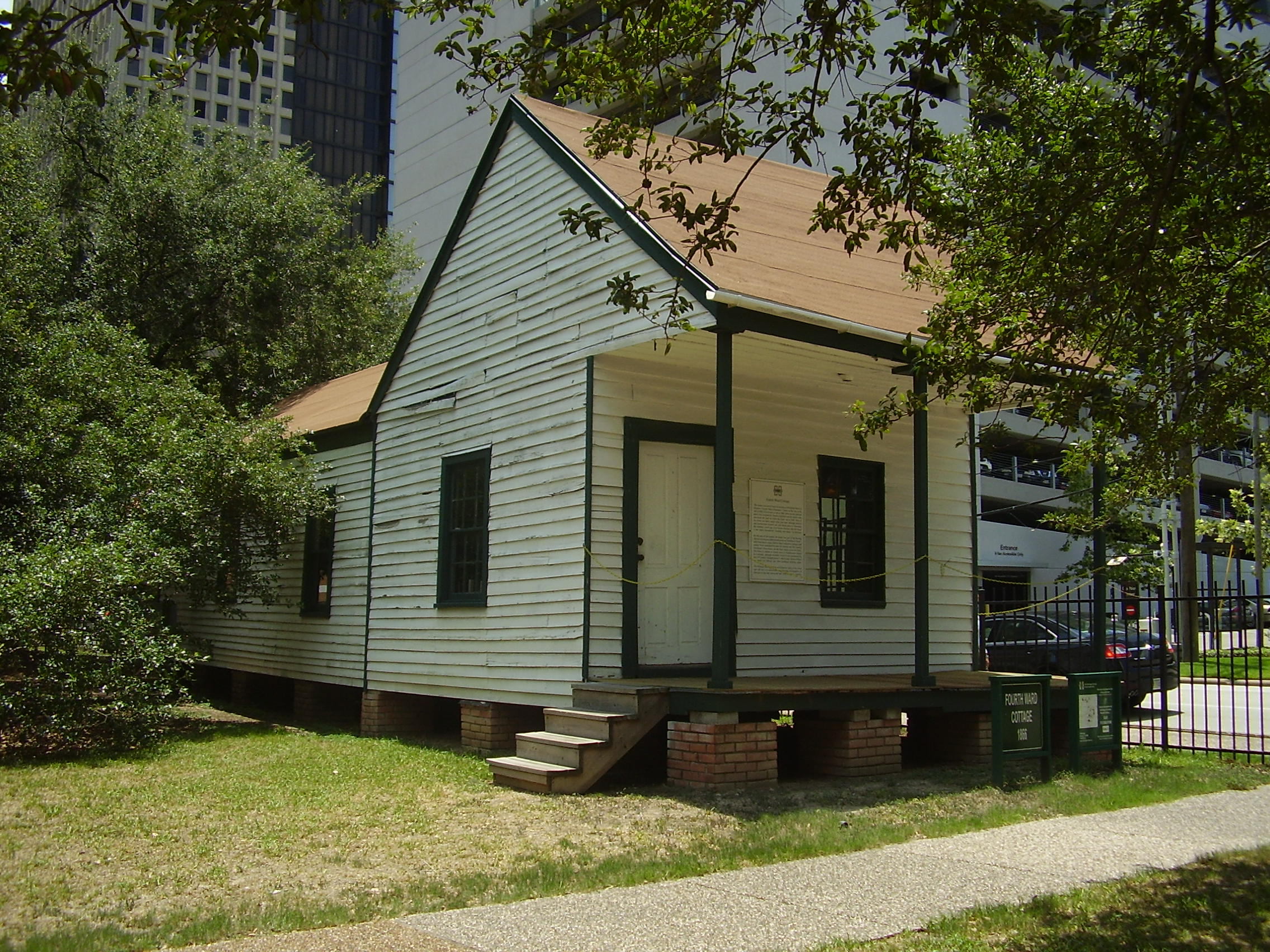 "Fourth Ward Cottage" - A cottage originally at 809 Robin Street in the Fourth Ward, moved to Sam Houston Park.in the northern hemisphere fall of 2002. It was constructed in or before 1866.